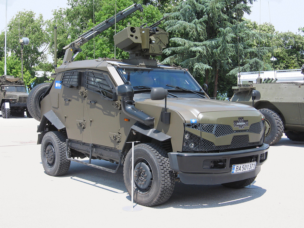 Bulgarian Military Police's Oshkosh Sand Cat